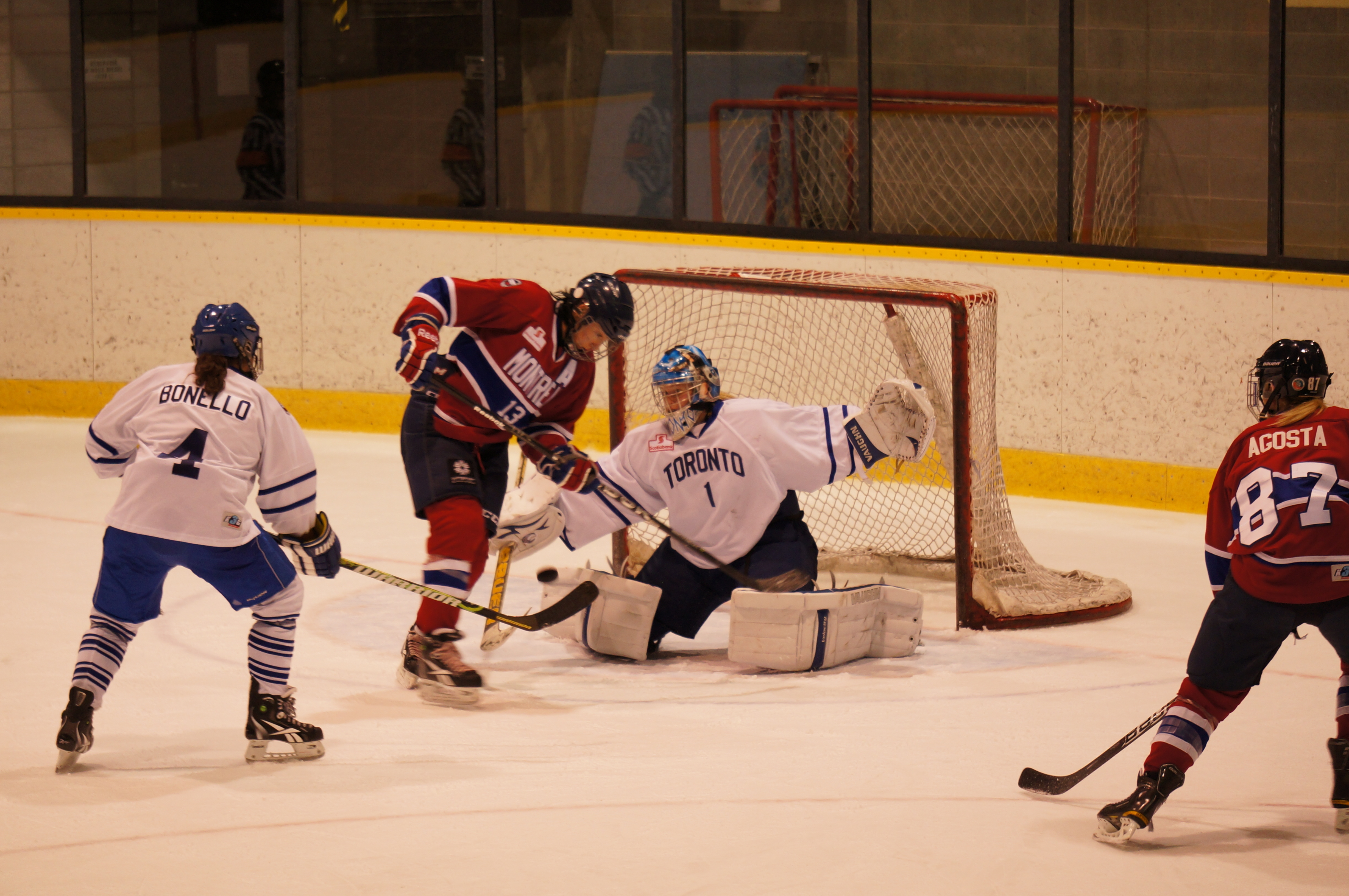 Caroline ouellette. Montreal Stars